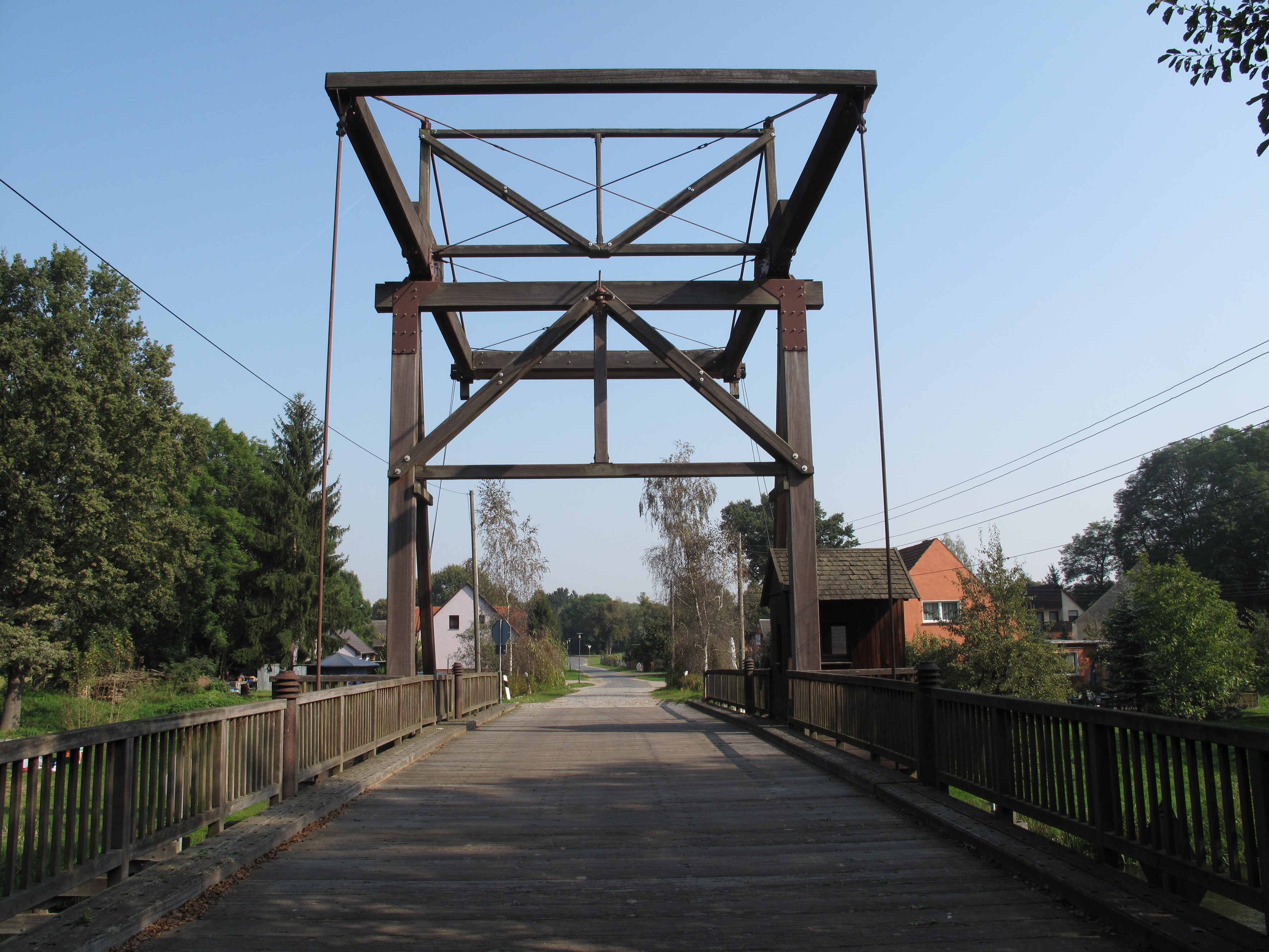 Spreebrücke Briescht, view towards the north to the village Briescht. The „Spreebrücke Briescht“ is a wooden street-, bike- and footbridge in the village Briescht, a part of the municipality Tauche in the District Oder-Spree, Brandenburg, Germany. The 72 m long drawbridge/bascule bridge was built according to the historical example in 1992 and spans the river Spree. Its southern part spans a small backwater of the river. The bridge is part of the Spreeradweg (Spree-cycling-route) and of the cycling route „Märkische Schlösser-Tour“ (palaces tour in the former Margraviate of Brandenburg).